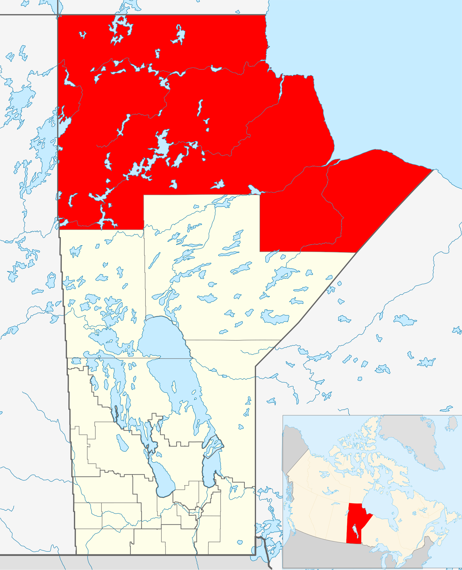 Division No. 23, Manitoba.